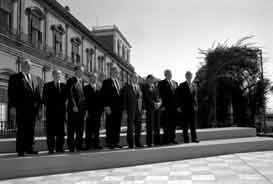 Leaders of Group of Seven pose for the family photograph in Naples City, Campania Region on July 9, 1994.